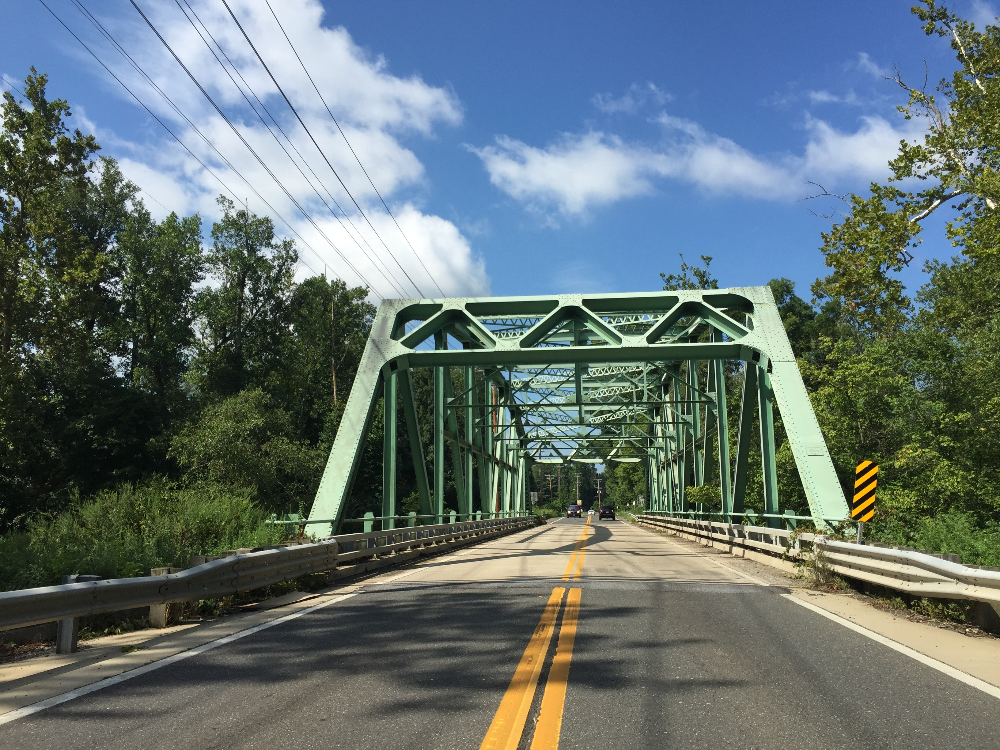 View west along Maryland State Route 214 (Central Avenue) crossing the Patuxent River from western Anne Arundel County, Maryland to Queen Anne, Prince George's County, Maryland